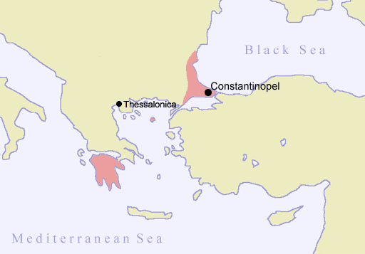 Maps of the Byzantine Empire